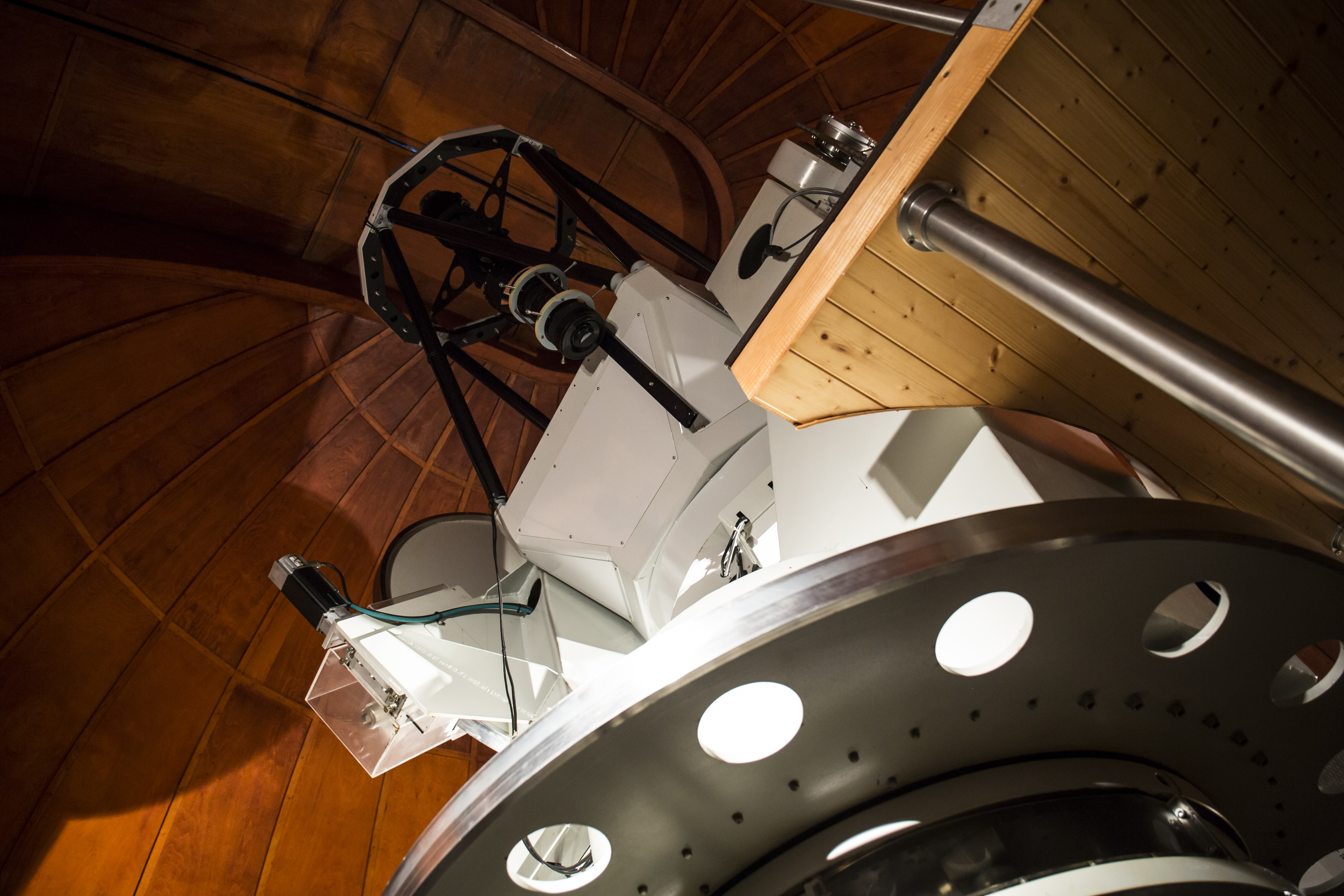 700-mm telescope Vega (custom-built) in the Golovec observatory, Ljubljana, Slovenia.